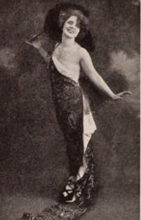 Mignonette Kokin, from a 1923 publication. A white woman standing, smiling, wearing a one-shouldered gown and holding a fan.